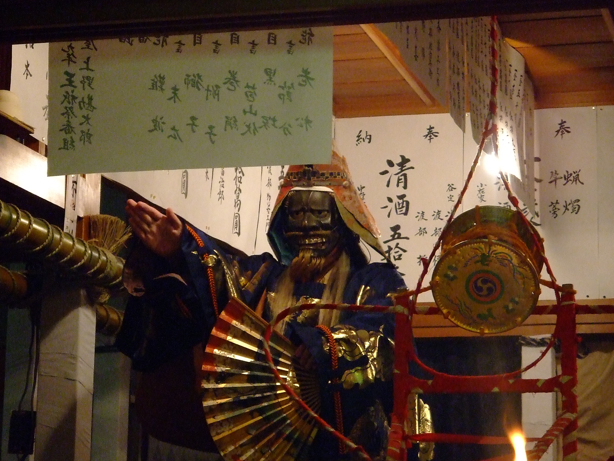 A masked character during a performance at the Kurokawa Noh Festival, Tsuruoka City, Yamagata Prefecture, Japan. I took this photo with a digital camera on 1st February 2007.